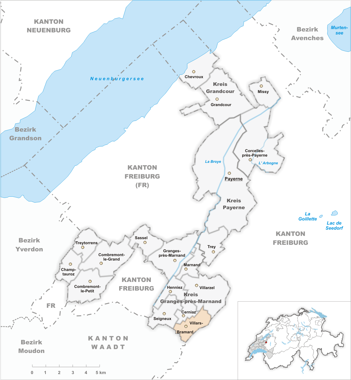 Municipality Villars-Bramard